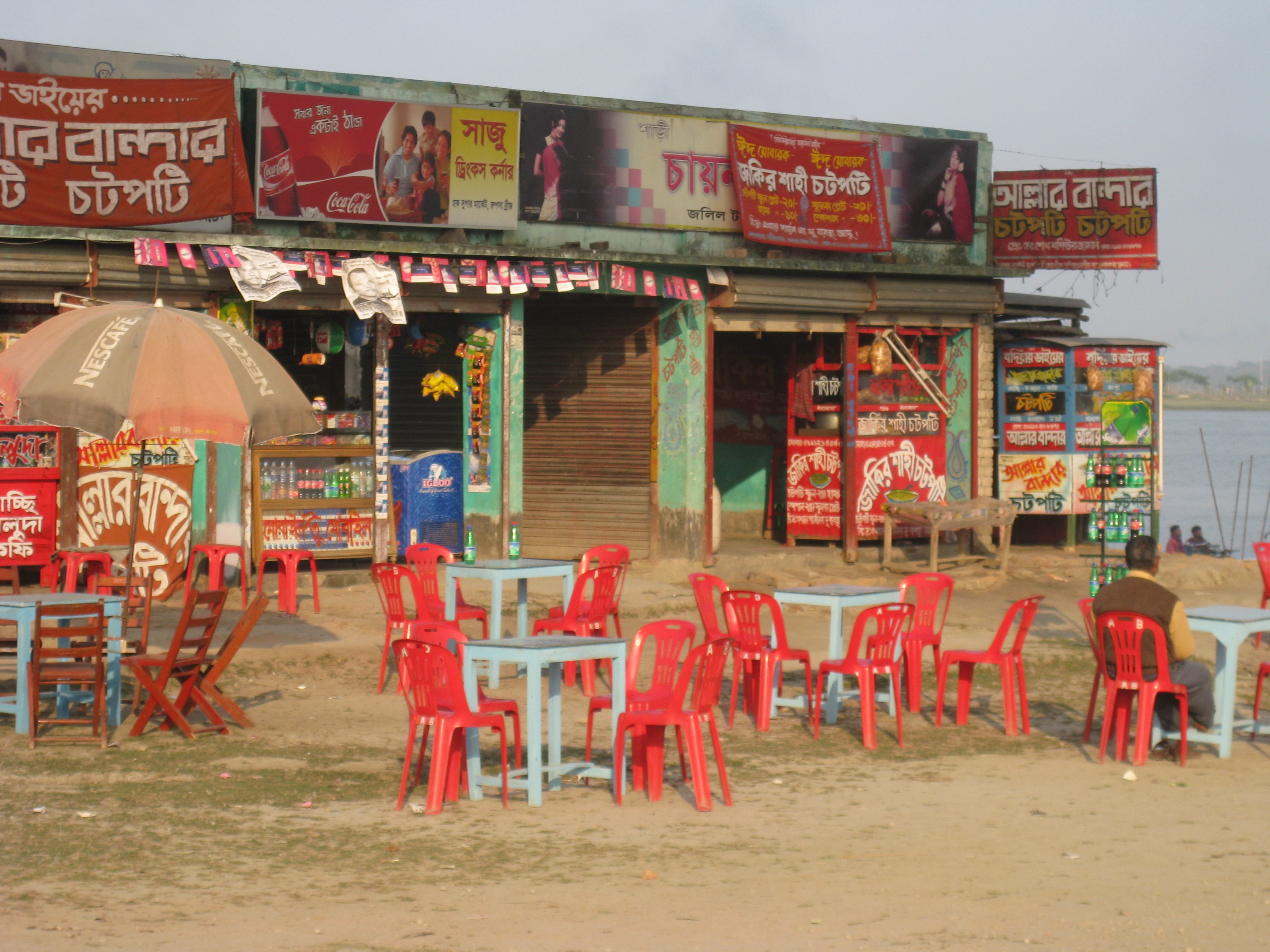 Rupsha Bridge at the Rupsha River in Khulna.